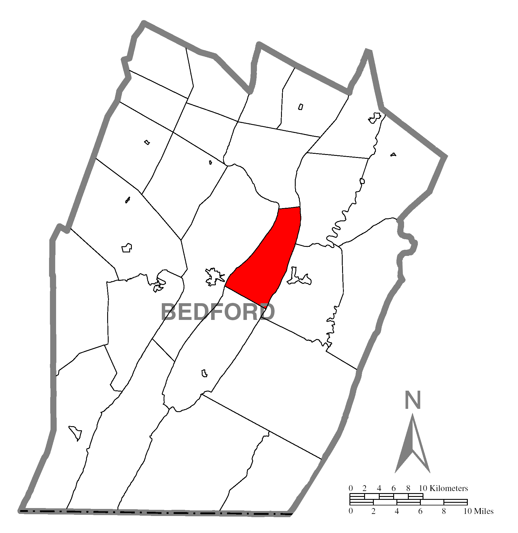 A map of Bedford County showing Snake Spring Township, Pennsylvania (alternate) highlighted on the map.